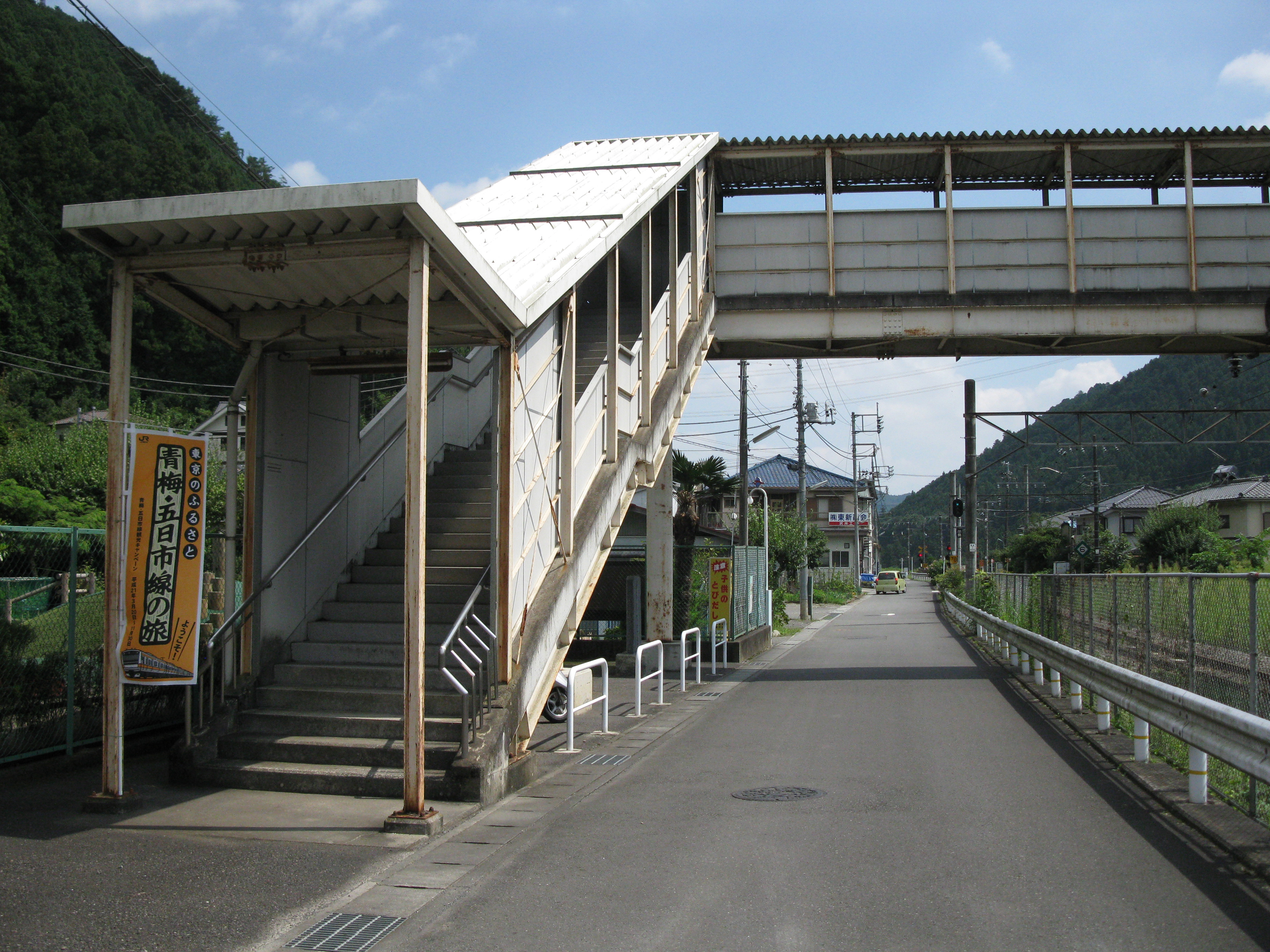 Sawai Station north entrance (East Japan Railway Ōme Line)